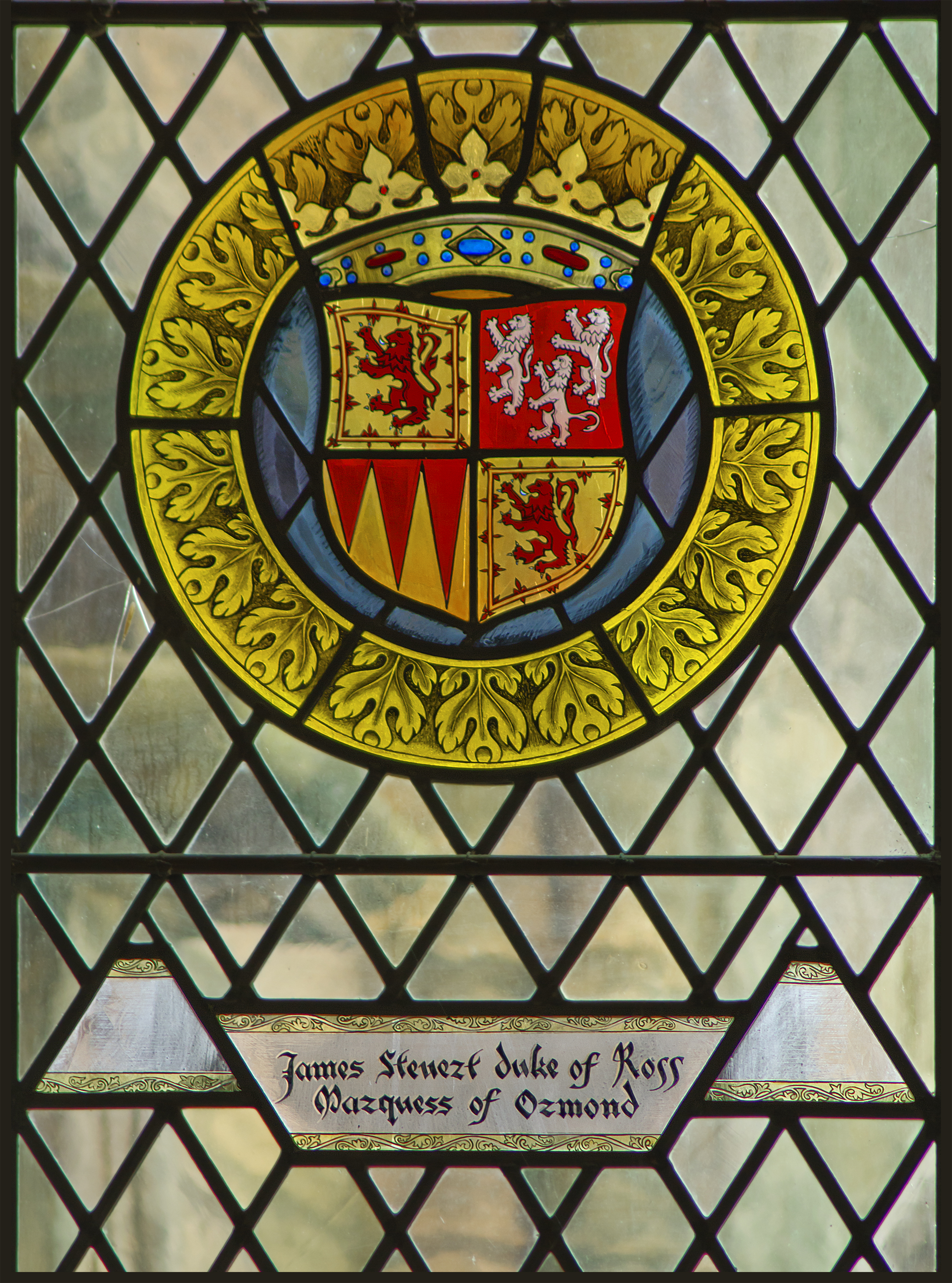 James Steuert (Stewart), Duke of Ross, Marquess of Ormond